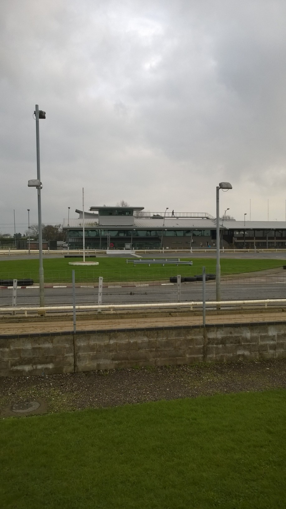 Yarmouth Stadium main grandstand view taken from the back straight in 2015